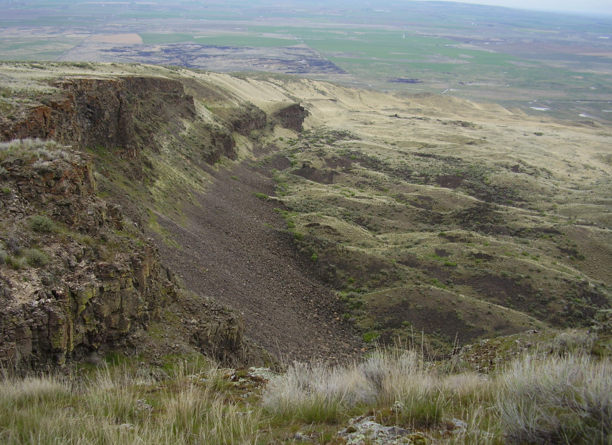 View from the top of the Corfu Slide in the Saddle Mountains located in central Washington state. Taken by uploader in April 2007. All rights relinquished. Williamborg 00:34, 15 April 2007 (UTC)